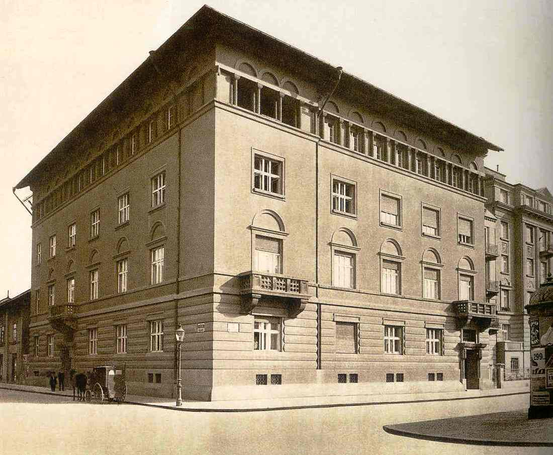 Architectural work by Viktor Kovačić